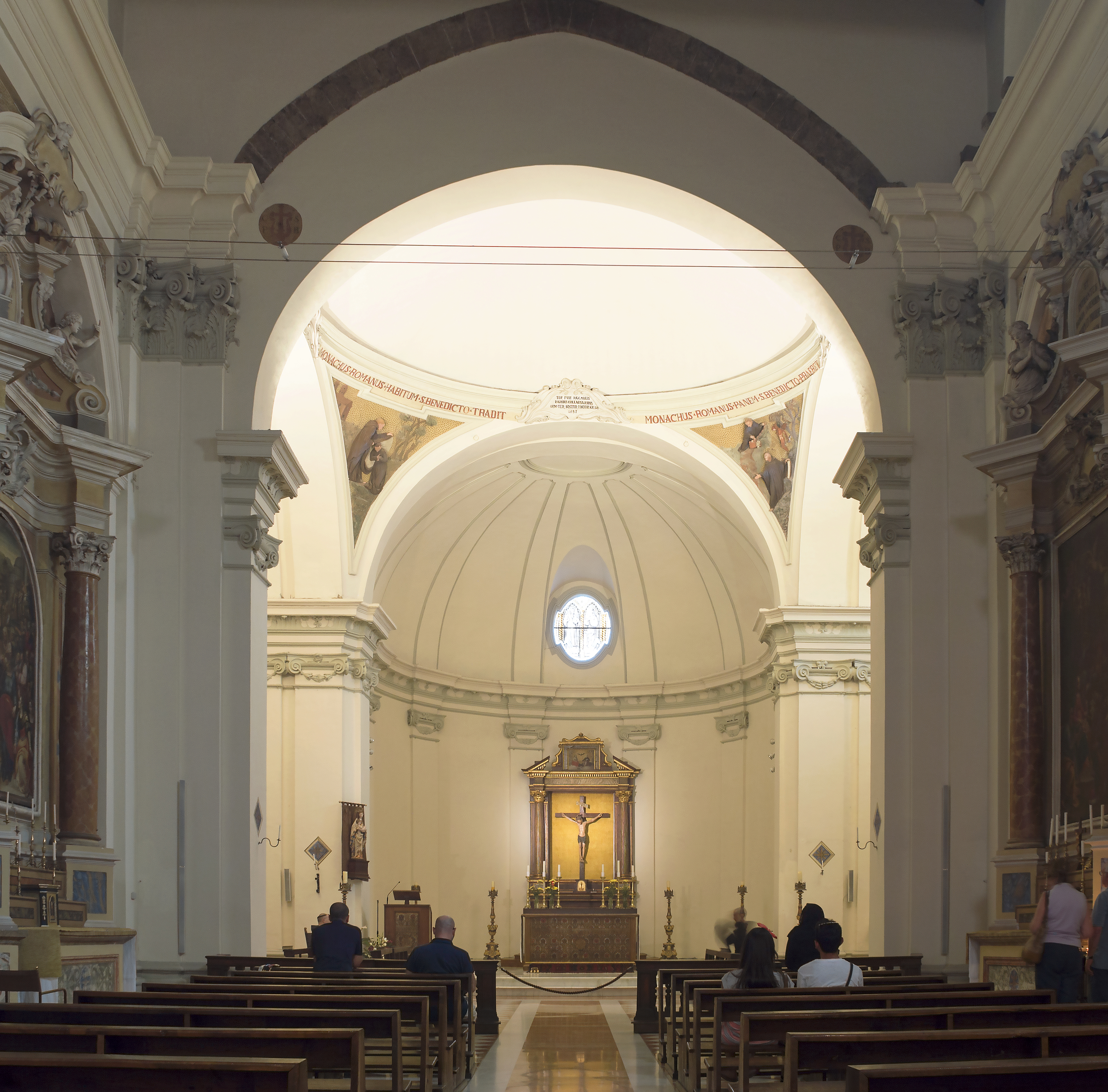 Basilica of St. Benedict - intern